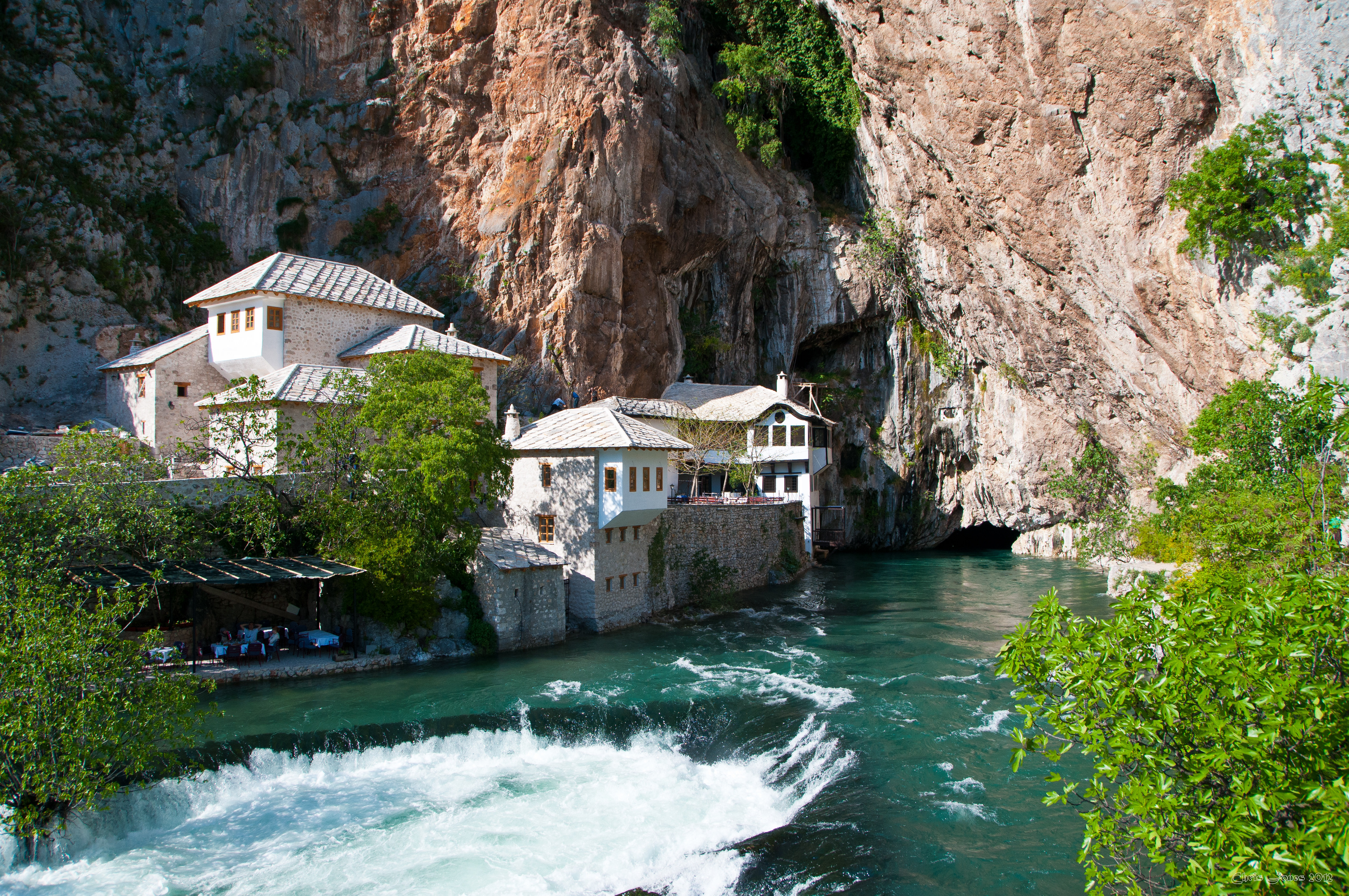 Mostar - Sufi House at Buna River spring